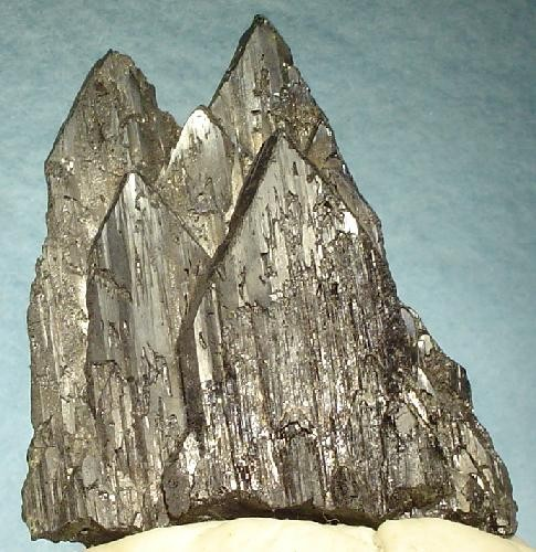 Wolframite Locality: Tae Hwa Mine (Taehwa Mine; Dae Hwa Mine; Taewha Mine; Tong Wha Mine; Tae Wha Mine), Neungam-ri (Neung Am-ri; Noungam-ri), Angseong-myeon, Chungju (Chung Won Kum; Chung-ju), Chungcheongbukdo (Chungchong-pukto), South Korea (Locality at ) Size: 5.7 x 4.6 x 2.4 cm. A STRIKING and RARE specimen of a sharp, saw tooth mountain range of highly lustrous, striated, parallel-growth, jet-black wolframite crystals from the very famous Taewha Mine of Korea. Wolframite is essentially unknown from this famous locality, which at one time, was considered to produce the world’s finest scheelites. Ex. George Feist Collection.